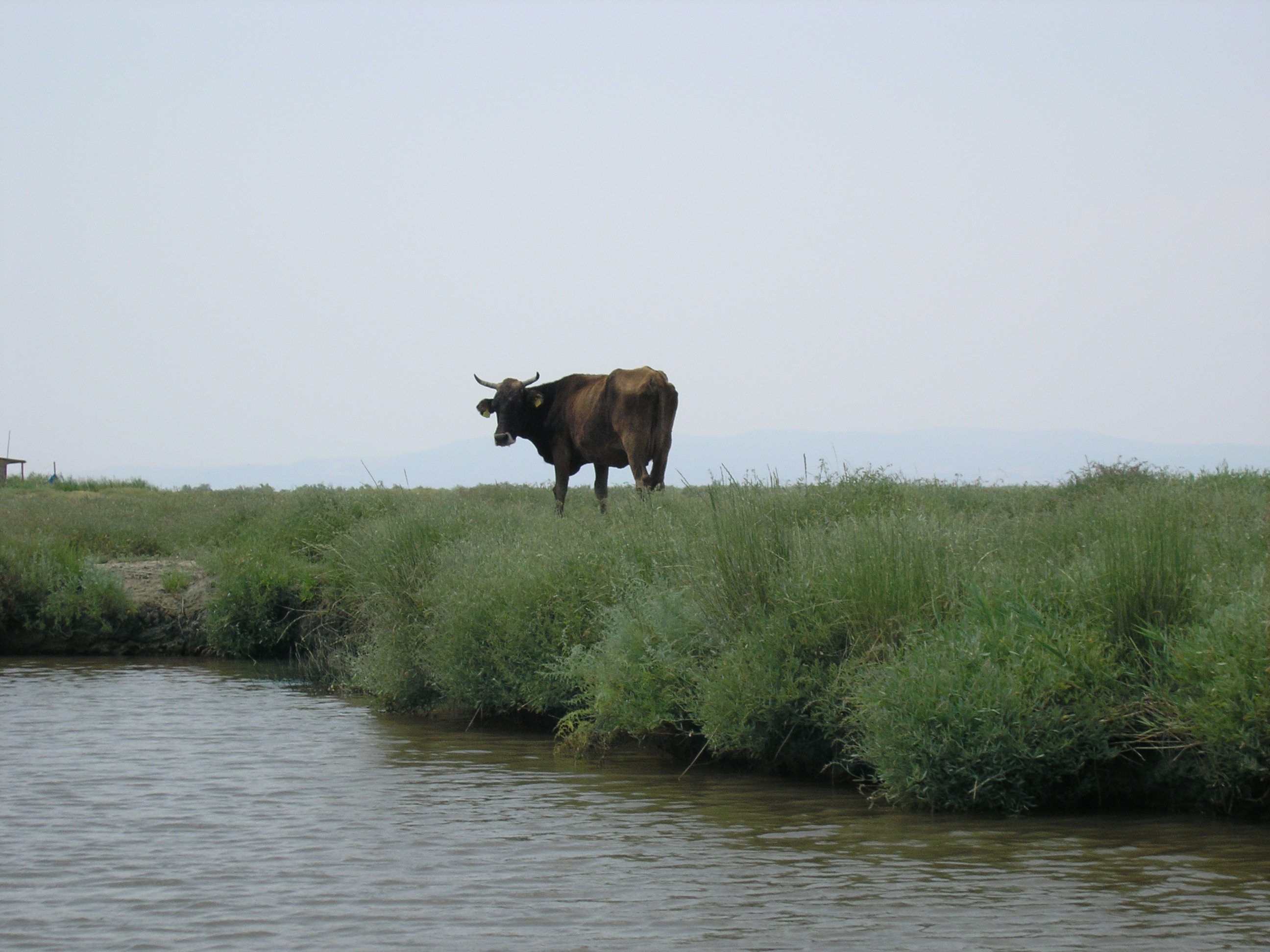 Μοναχική αγελάδα σε μικρή νησίδα στο Δέλτα του Έβρου